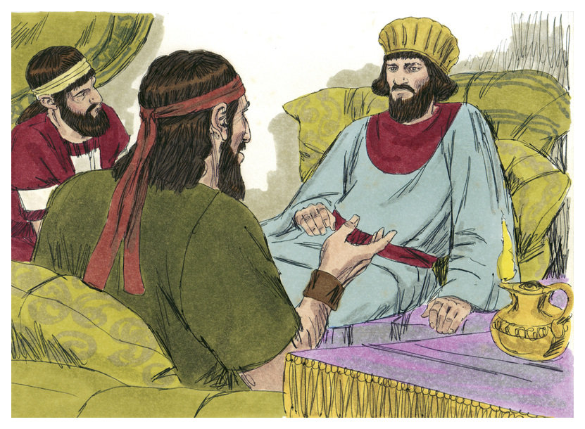 Biblical illustration of Book of Nehemiah Chapter 1